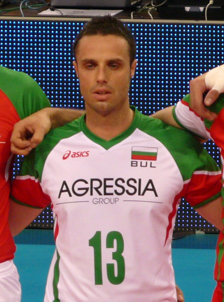 Teodor Salparov - Bulgarian volleyball player. Photo taken at the FIVB WVL finals in Sofia, Bulgaria.